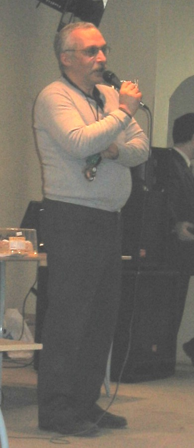 Alexander Drouz, Russian "What? Where? When" player